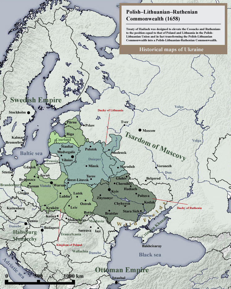 Historical maps of Poland, Lithuania and Ukraine: Polish–Lithuanian–Ruthenian Commonwealth or Commonwealth of Three Nations (1658) - Treaty of Hadiach.